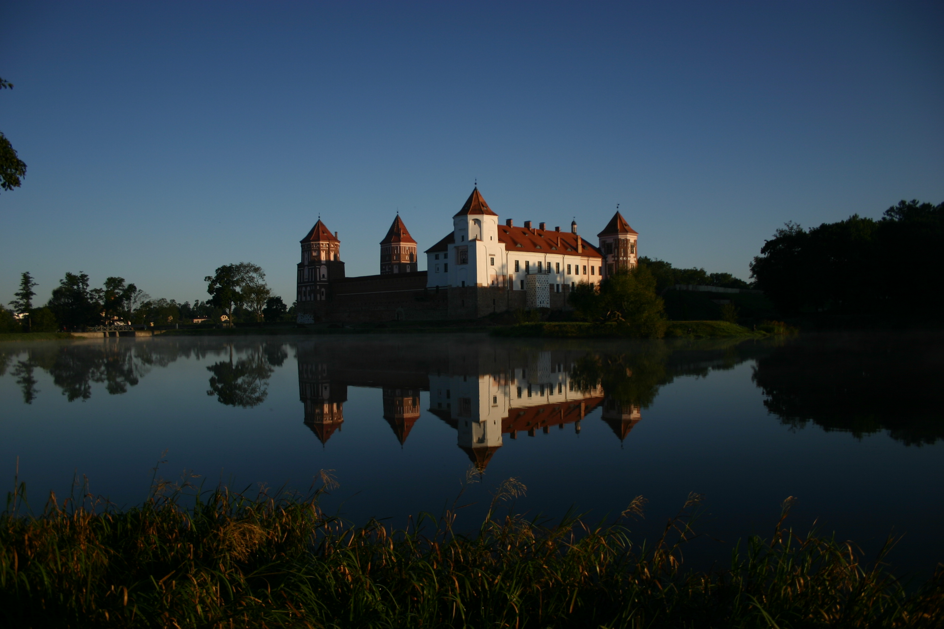 Castle of Mir, Byelorus